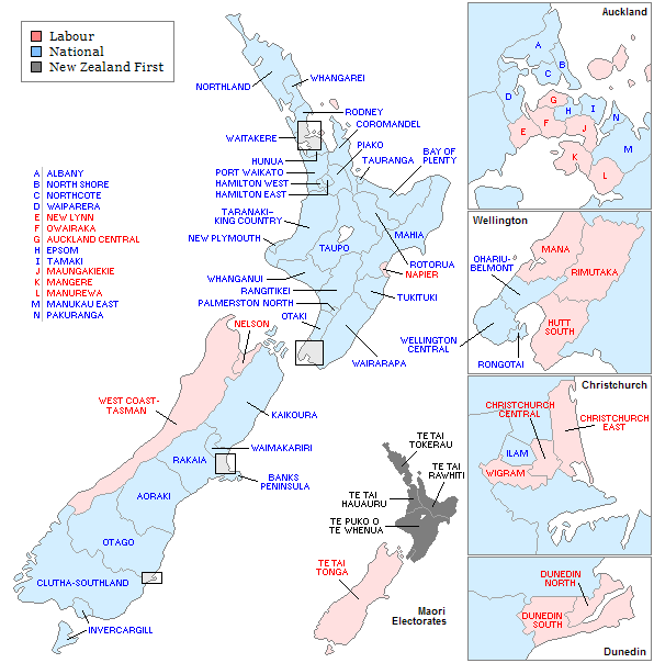 Election map depicting the party list results of the New Zealand general election, 1996. Colours denote the highest polling party in each electorate.